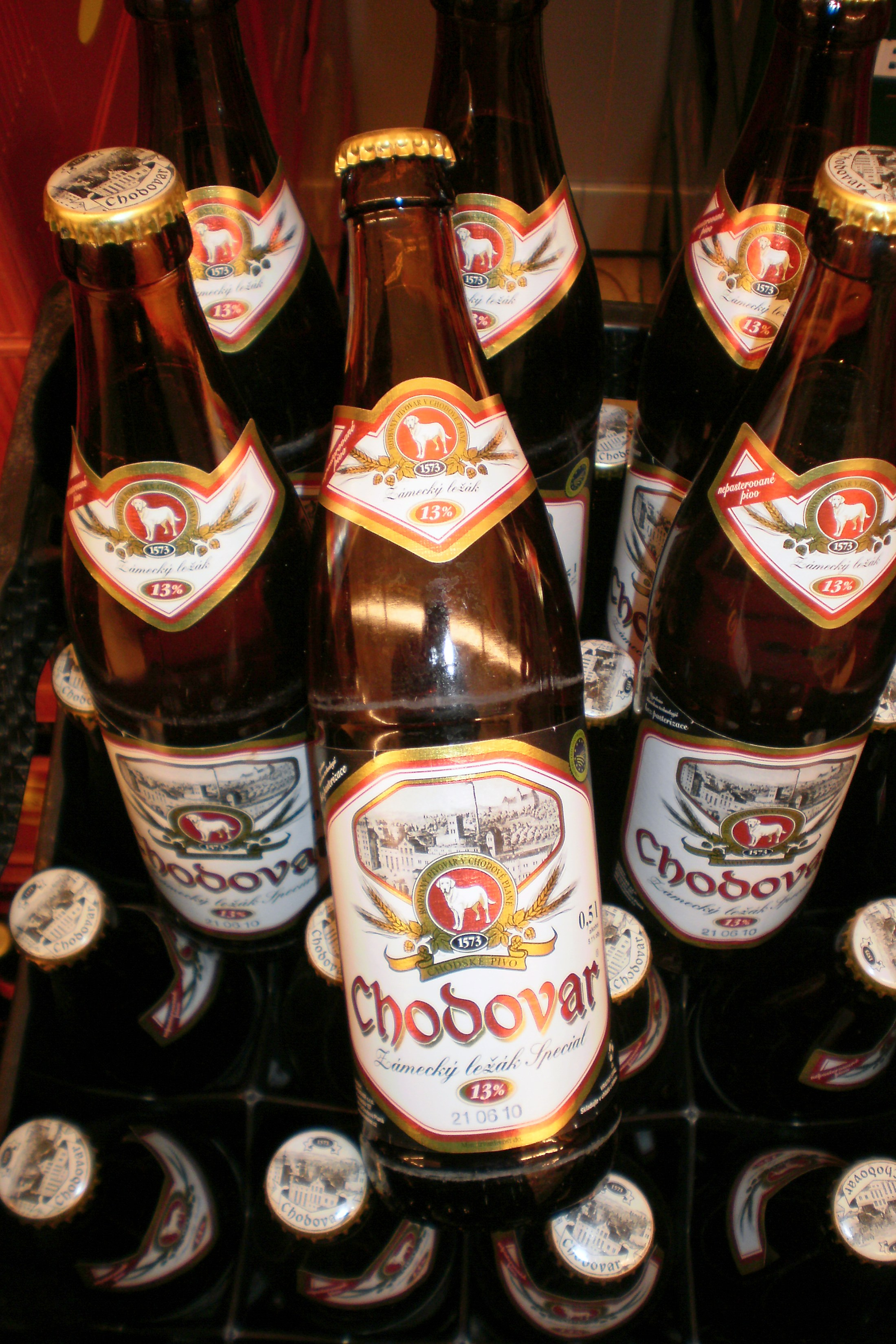 Beer - Czech Republic.